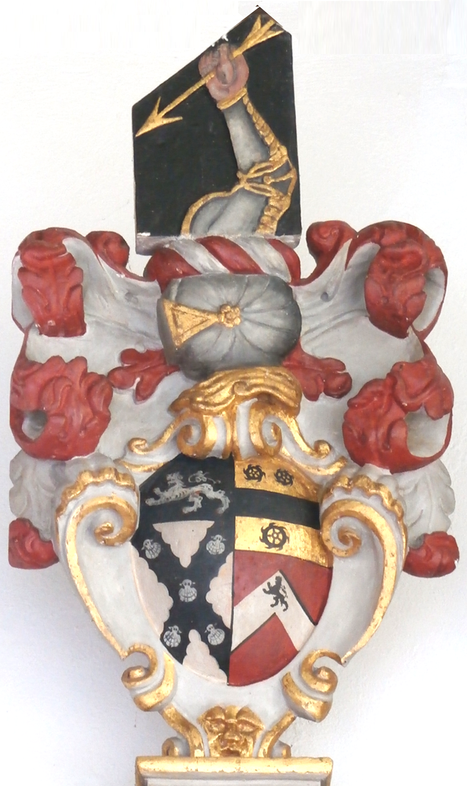 Arms of Aaron Baker (1620–1683) of Bowhay in the parish of Exminster (near Dunchideock), Devon, first President of the Madras Presidency, detail from his mural monument in Dunchideock Church, Devon. Arms: Argent, on a saltire engrailed sable five escallops of the first on a chief of the second a lion passant of the first (Baker, of which the arms of the Baker Baronets (1796) of Dunstable House, Richmond, Surrey, are a difference); impaling the arms of his two wives: in chief: Or, a fess between three Catherine wheels sable; in base: Gules, on a chevron argent a lion rampant sable. Above is the crest of Baker: A man's dexter arm embowed argent garnished or grasping in the hand proper an arrow point downward or